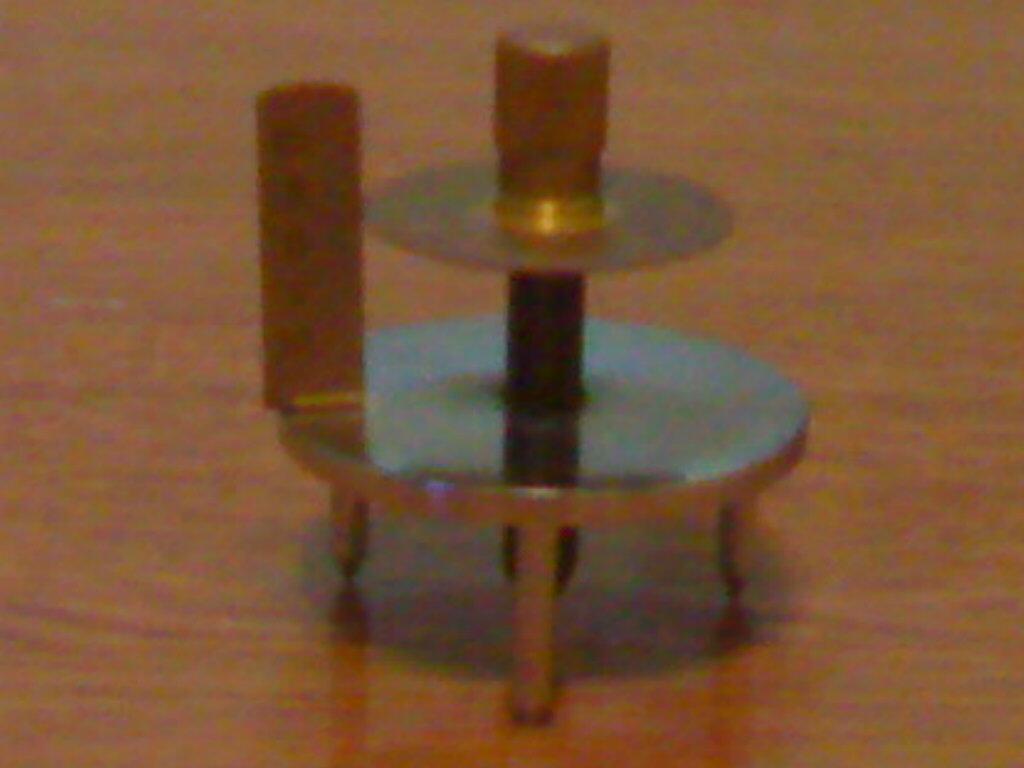 Common Spherometer